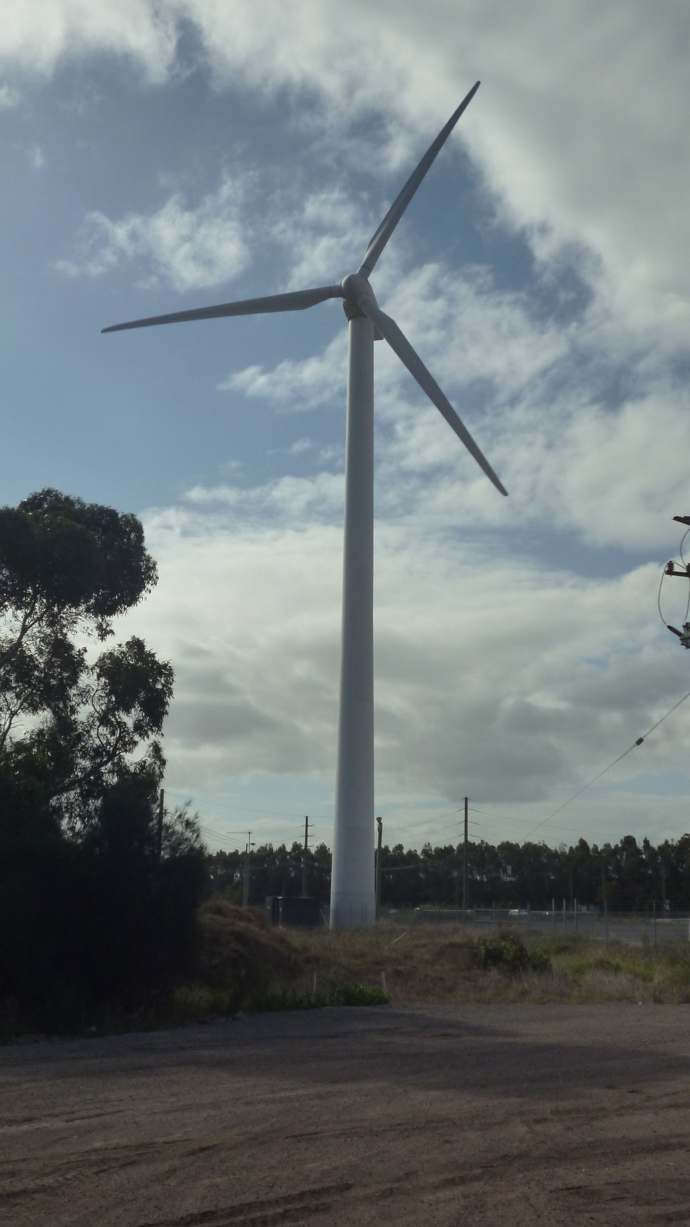 Wind turbine on Kooragang Island in Kooragang, New South Wales, Australia.